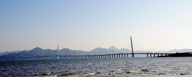 The Hong Kong-Shenzhen Western Corridor